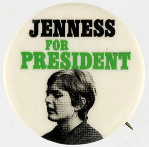 1972 campaign button for Linda Jenness's run for U.S. President